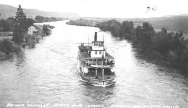 This is the sternwheeler Okanogan coming downstream on the Okanogan river. The photo was taken from the high steel bridge that spanned the river at that point.